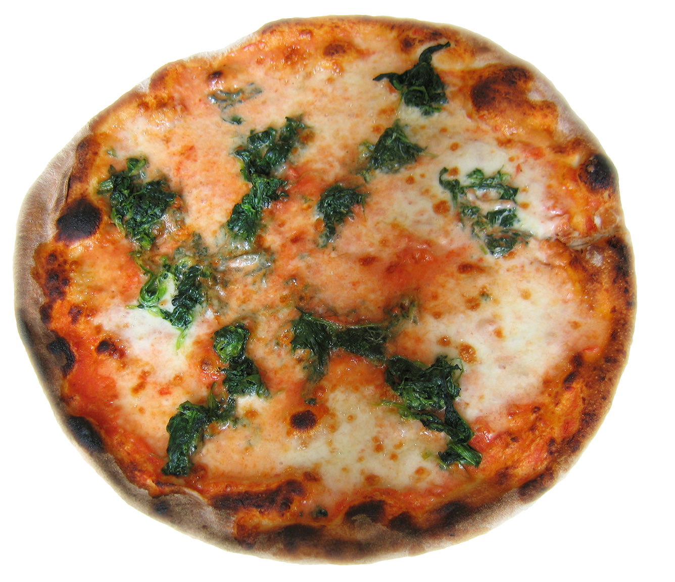 Spinach pizza, Turin, Italy.